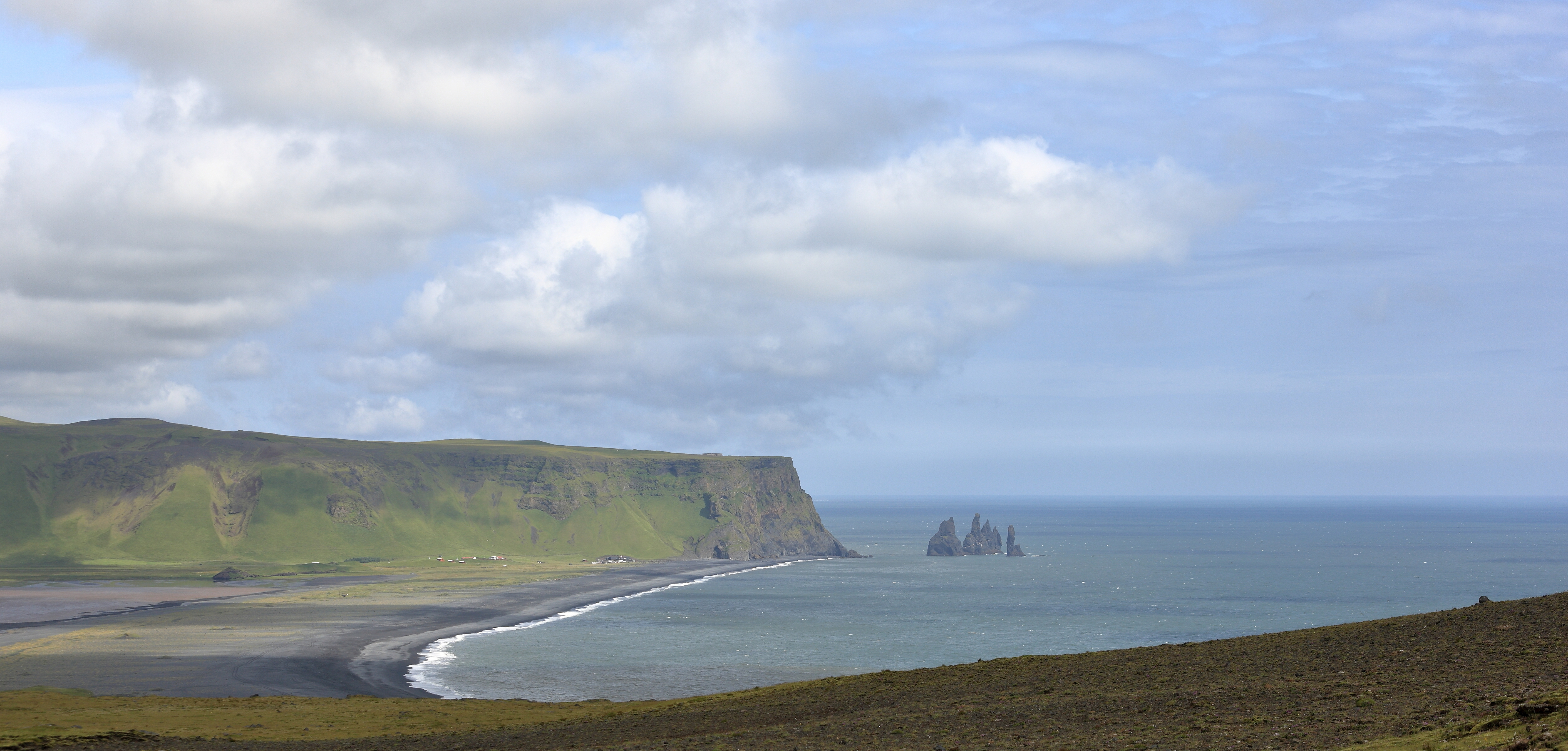 The beach of Reynisfjara and Reynisdrangar, basalt sea stacks, as seen from Dyrhólaey, Iceland.